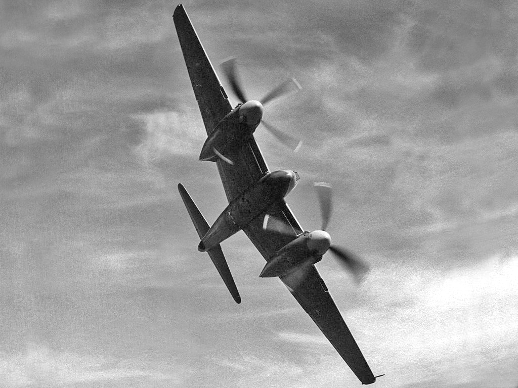 DH.103 Hornet F.1